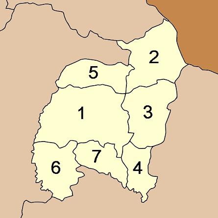 Map of Amphoe Charoen Province, Thailand, with the districts (Amphoe) numbered Mueang Amnat Charoen (อำเภอเมืองอำนาจเจริญ) Chanuman (อำเภอชานุมาน) Pathum Ratchawongsa (อำเภอปทุมราชวงศา) Phana (อำเภอพนา) Senangkhanikhom (อำเภอเสนางคนิคม) Hua Taphan (อำเภอหัวตะพาน) Lue Amnat (อำเภอลืออำนาจ)